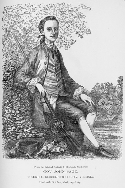 Gov. John Page of Virginia, Rosewell Plantation, Gloucester County, Virginia, died 11th October, 1808. Aged 64. Courtesy of the New York Public Library Digital Collection.